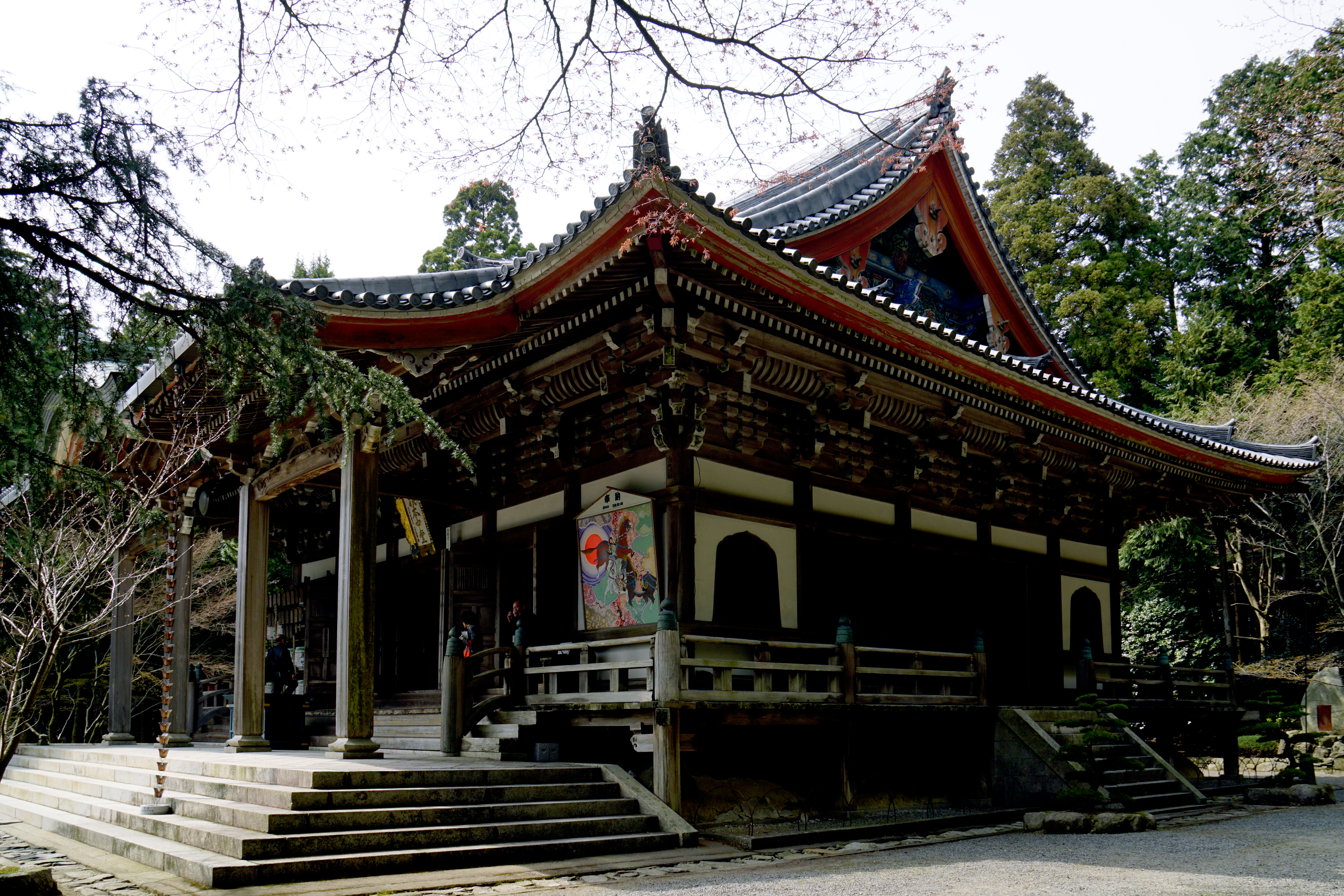 Kiyomizu-dera in Kato, Hyogo prefecture, Japan.